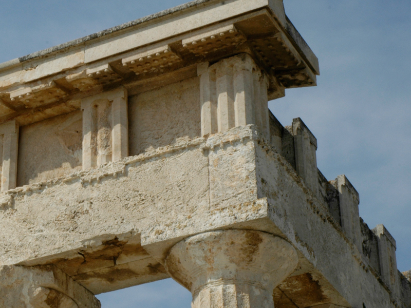 Doric frieze and horizontal geisa of the Temple of Aphaia II showing slotted triglyphs. J. M. Harrington, personal digital image dosiero:Templo de Afea.jpg